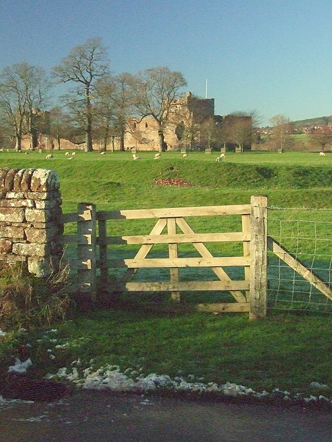 Brougham Castle from the southeast.